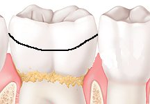 Anatomic tooth equator